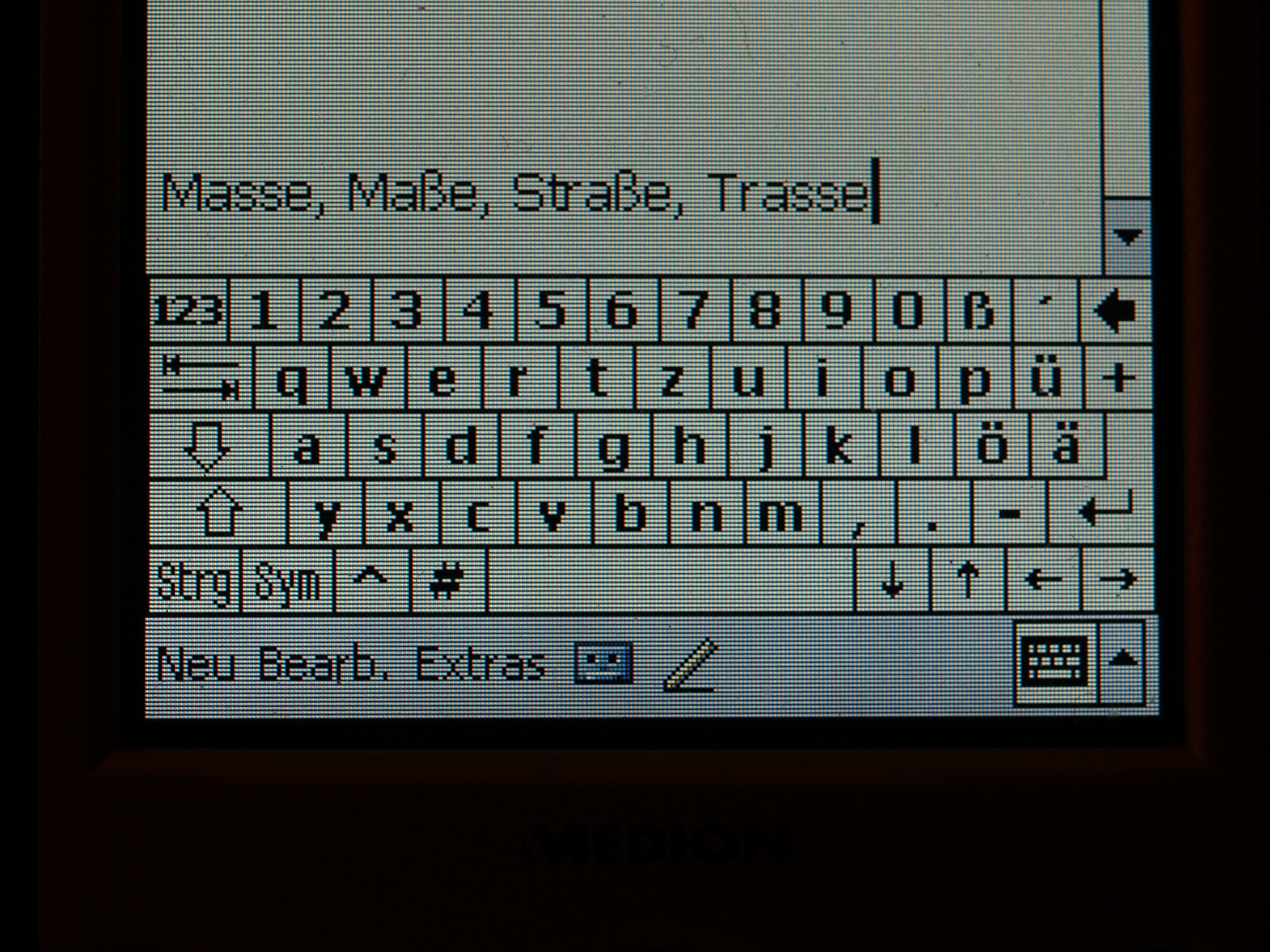 Virtual keyboard on a pocket-PC, German version with a "ß" key